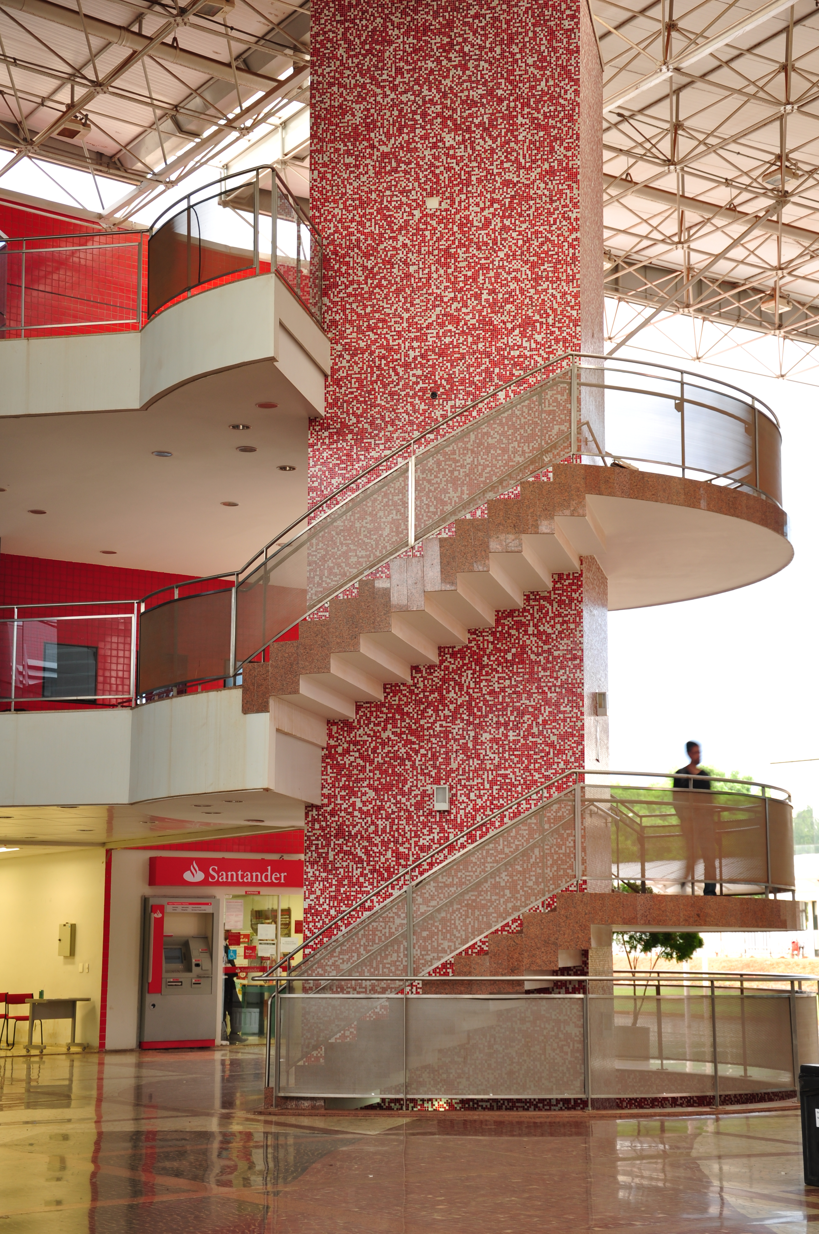 IESB university